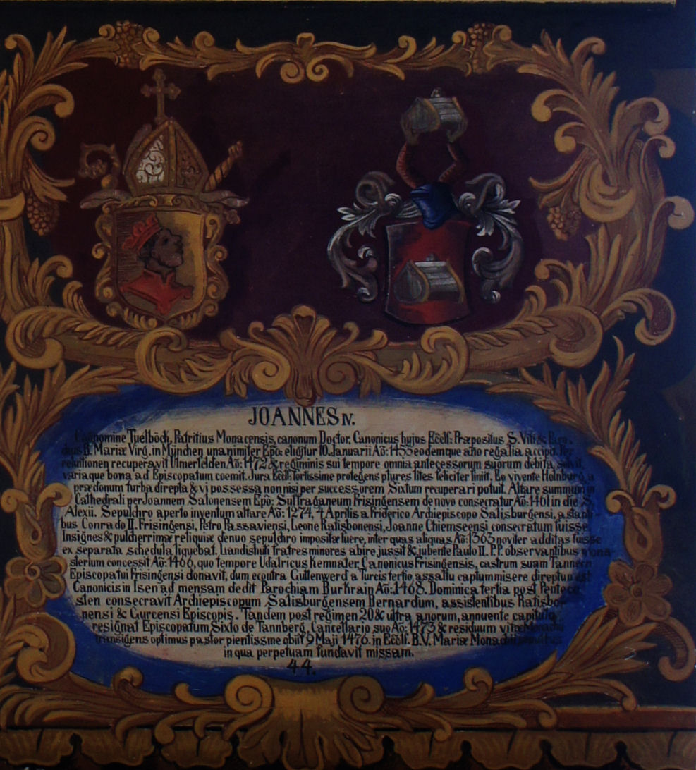 Wappentafel von Johann IV. Tulbeck, Fürstbischof von Freising, im Fürstengang zwischen Fürstbischöflicher Residenz und Freisinger Dom. Links das geistliche, rechts das persönliche Wappen, darunter ein lateinischer Text mit kurzer Biographie.